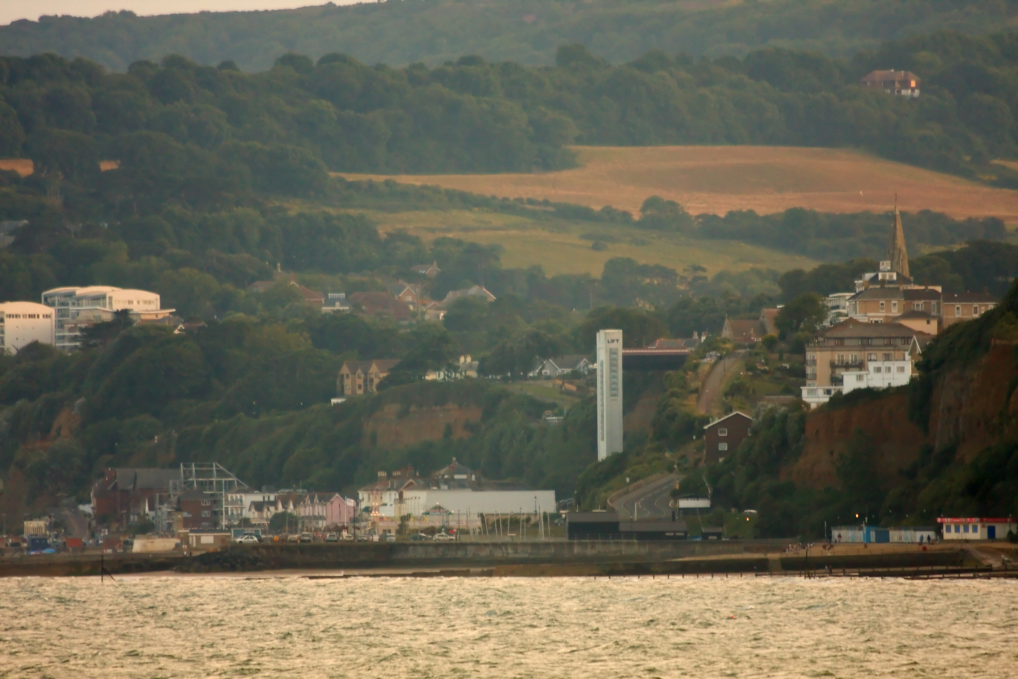 This is the view of Shanklin you get from Sandown Bay. The tall white structure near the middle is the cliff lift taking you from the town to the seafront.